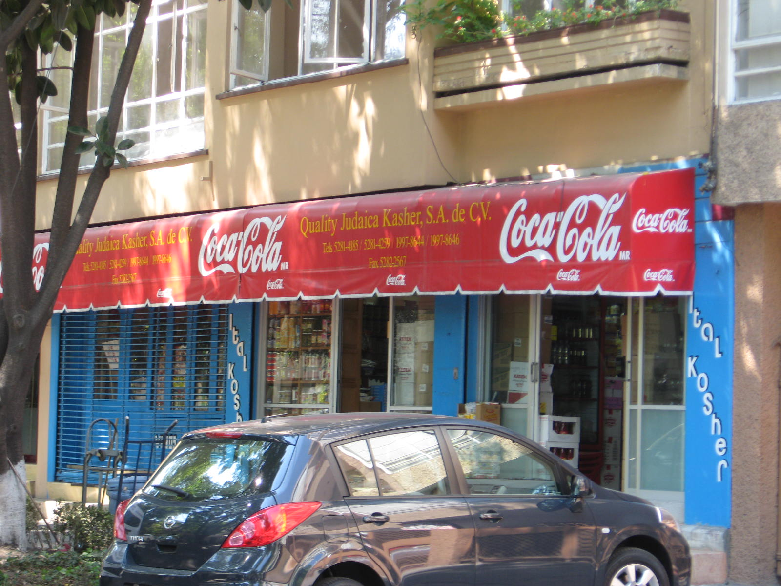 Kosher food store located on Poe Street in the Polanco neighborhood of Mexico City